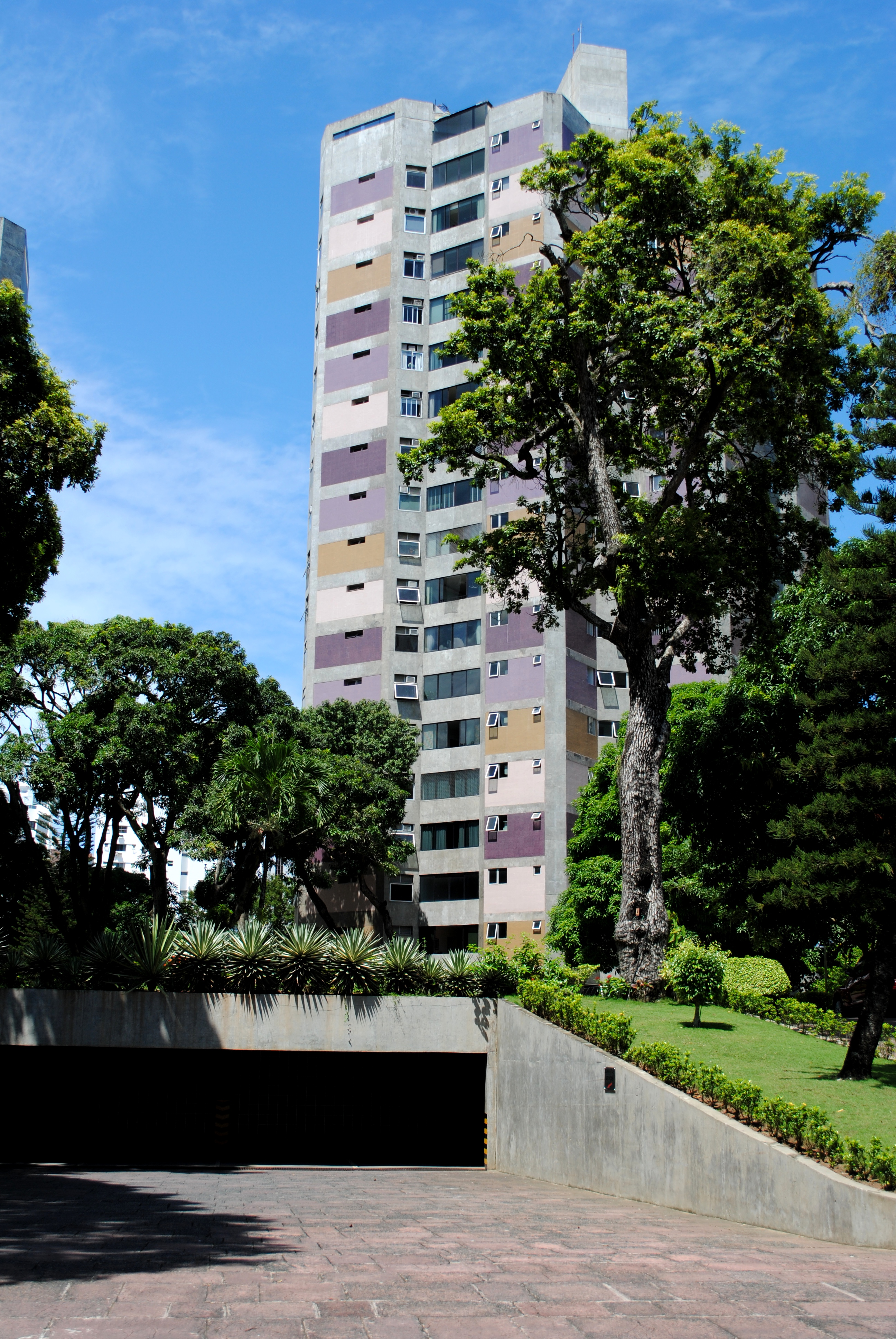 South block of the apartment buildings known as Solar das Mangueiras, desinged by the architect Assis Reis, construction completed in 1980, Salvador, Bahia, Brazil